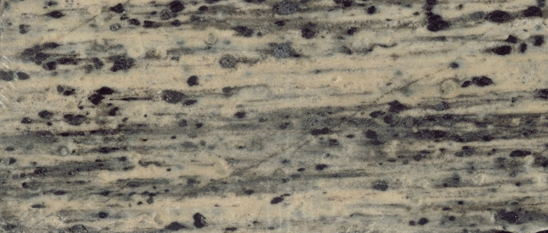 LS-tectonite from the Paraiba do Sul Shear Zone (Brazil). Foliation and lineation are done by flattened and stretched (ellipsoidals) feldspar, amphibole and orthopyroxene porphiroclasts. The lineation lies in the plane of foliation. Picture taken perpendicular to S-plane